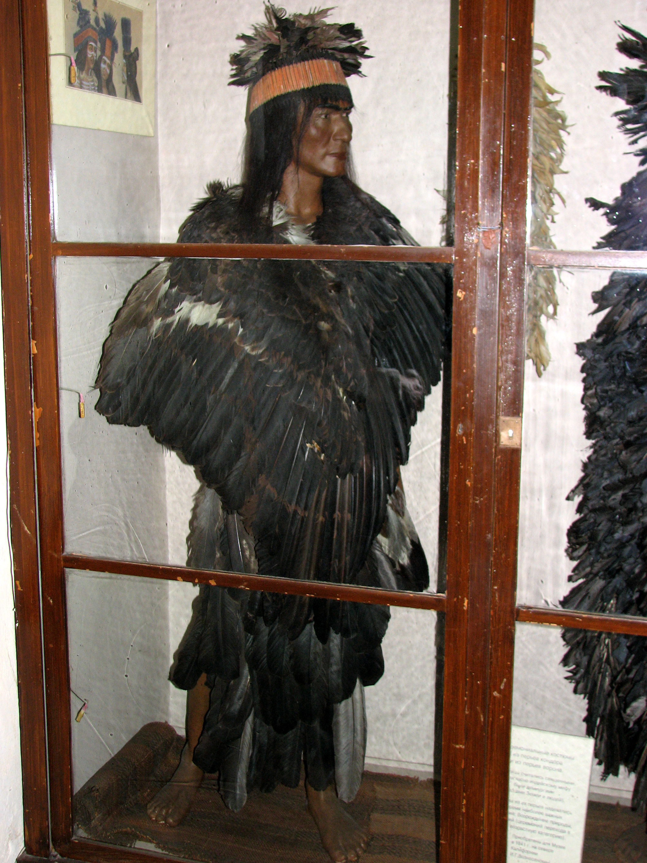 Saint Petersburg. Kunstkamera. Hall of North America. Indians of California. Ceremonial suit: a cape from wings Condor with an apron from feathers Condor. The XIX-th century middle.